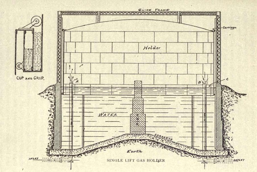 Gas Holder for use in storage of coal gas